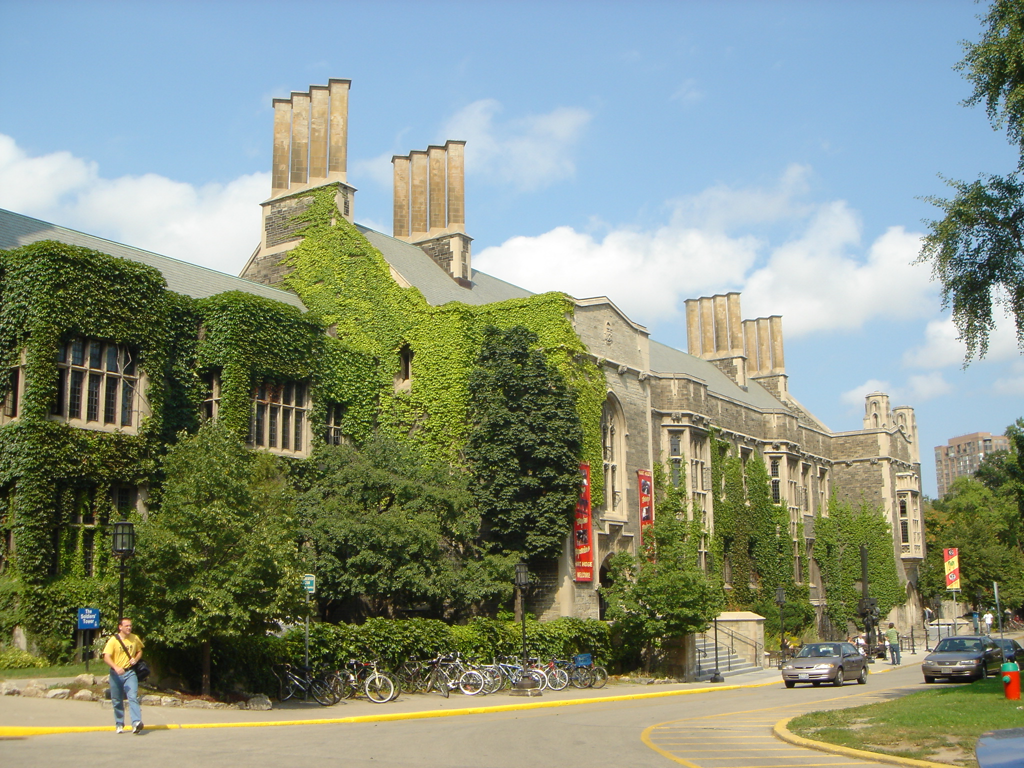 Hart House, University of Toronto.